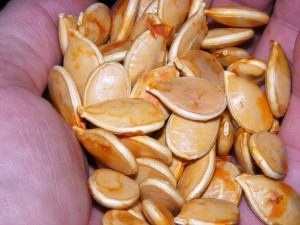 Free Photos – Pumpkin Seeds More photos and details - Full Size Up to 3072 x 2304 pixels Photo is free for personal or business use. You can modify them, sell them or make money from them. But keep in mind: This Pictures cannot be used for gallery, albums or other photo collection; Photos cannot be copyrighted even if is altered - You cannot take my photos and then copyright it yourself. Information Regarding Copyright